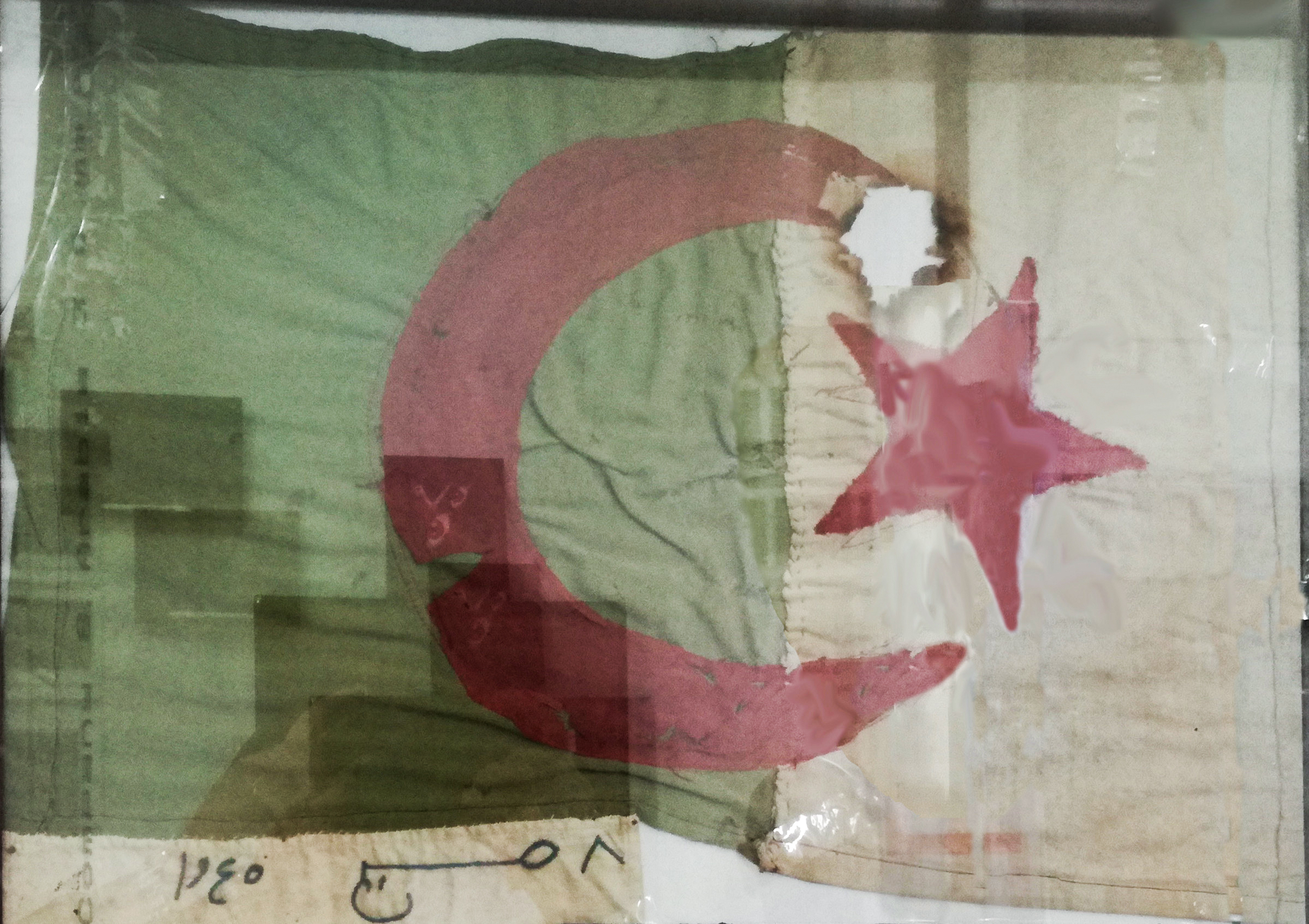 modified file for File:Drapeau 8 mai 1945 Bouzid Saal 2.jpg